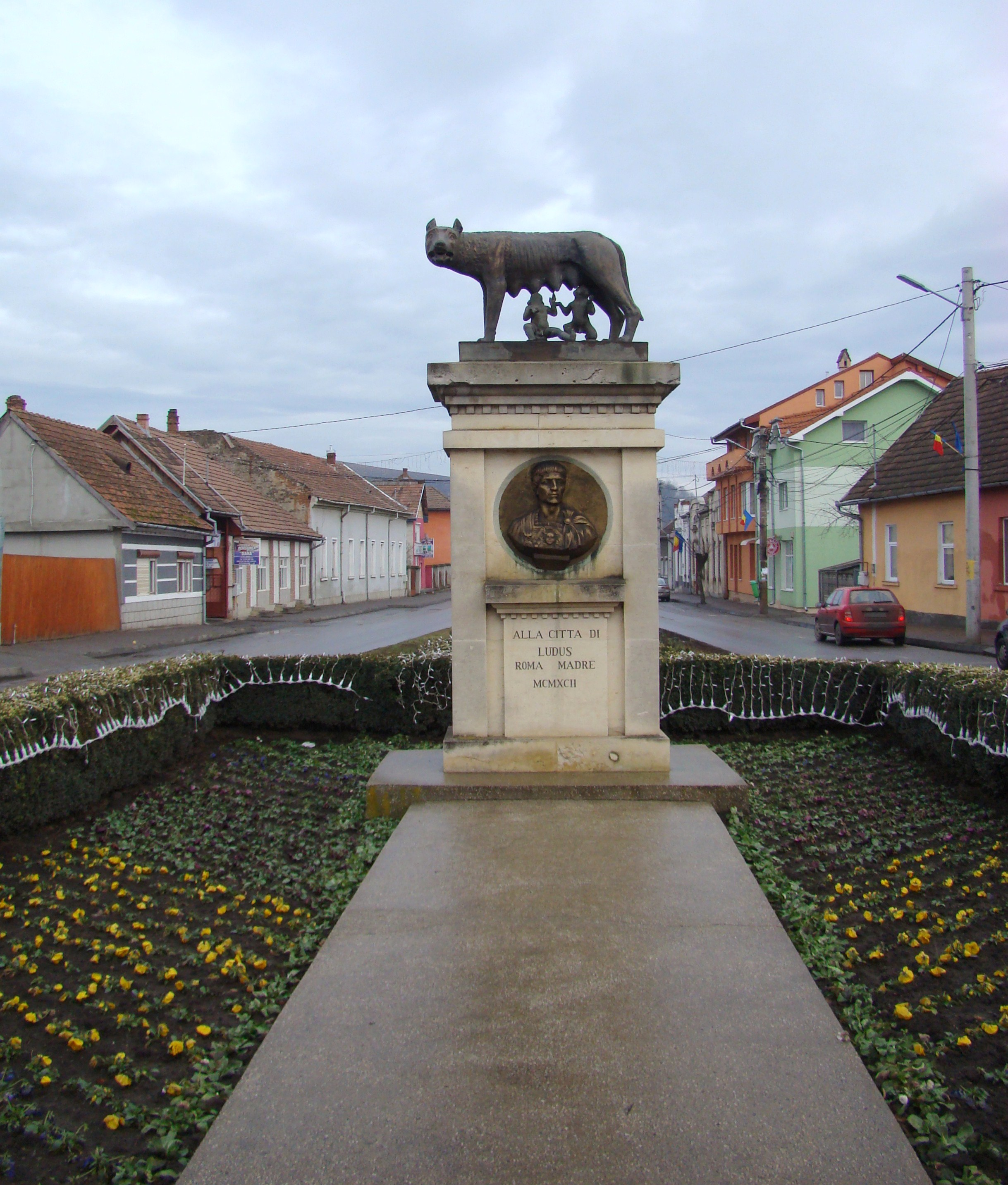 Statue, replica of Lupa Capitolina, located in Luduș